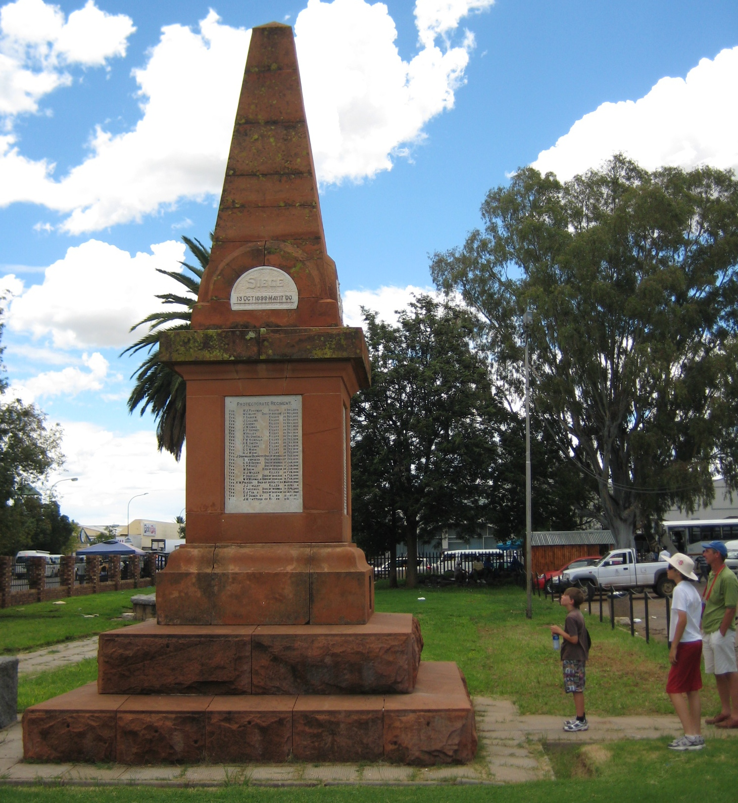 Obelisk commemorating British soldiers who died during the Siege of Mafeking. Located at Mafeking (now Mafikeng) Museum, 6 Martin Street, Mafikeng 2745, South Africa.